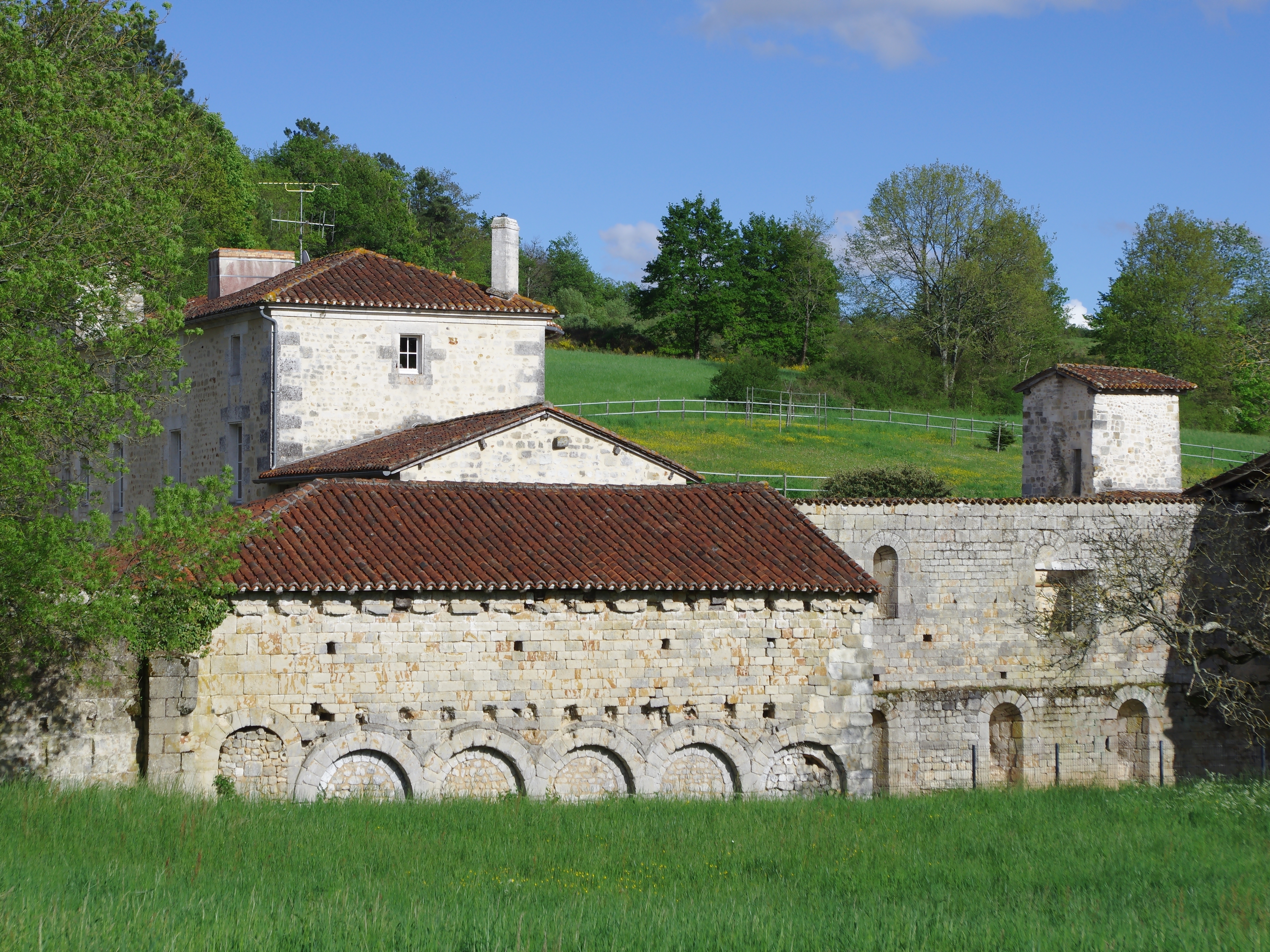 Abbey of Bournet (XIIth century). View from south-west. Courgeac, Charente, France.